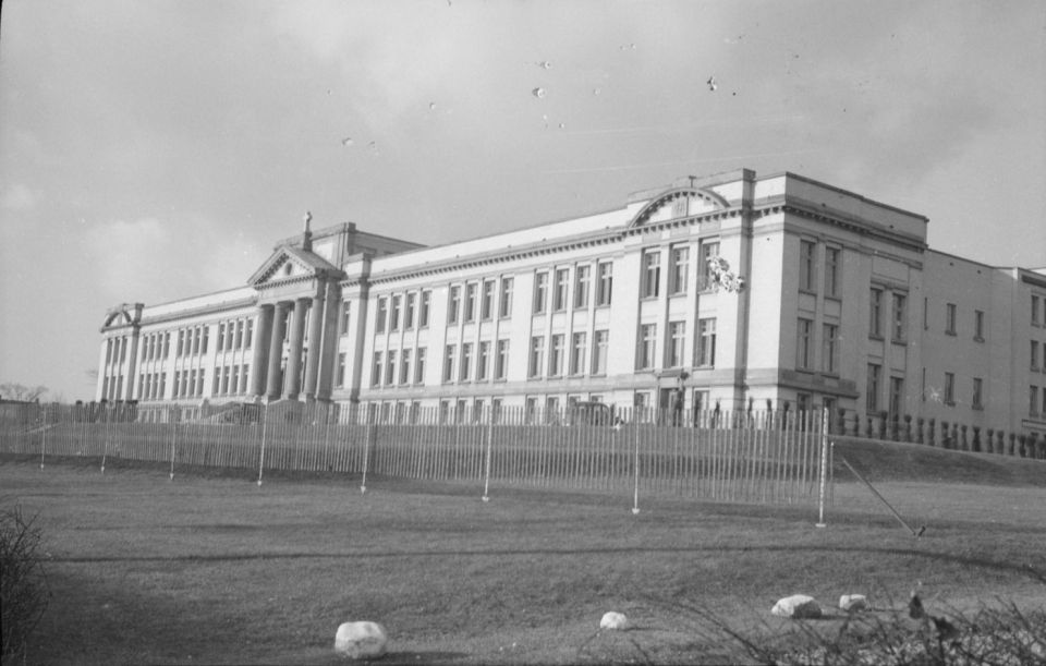 We see the building of the Pedagogical Institute belonging to the nuns of the Congregation of Our Lady of Montreal located at 4873 Westmount Avenue in Westmount.